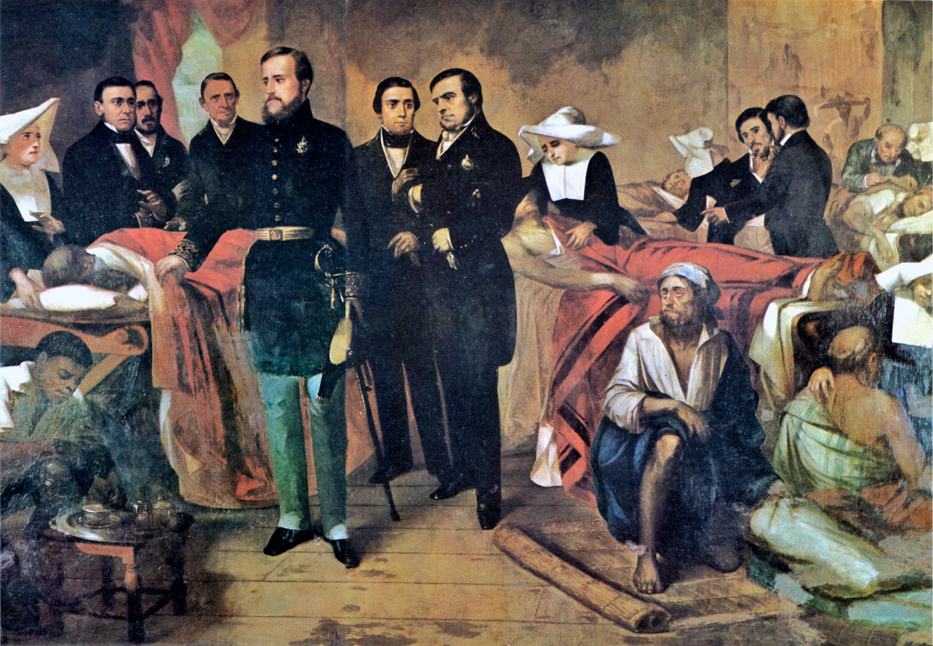 Emperor Pedro II of Brazil visiting victims of cholera aond with ministers of State, 1855. From left to right: (perhaps) Nabuco de Araújo, Pedro de Alcântara Belegarde, Antônio Paulino Limpo de Abreu (Viscount of Abaeté), Emperor Pedro II, Luís Pedreira de Couto Ferraz and Honório Hermeto Carneiro Leão (Marquis of Paraná).